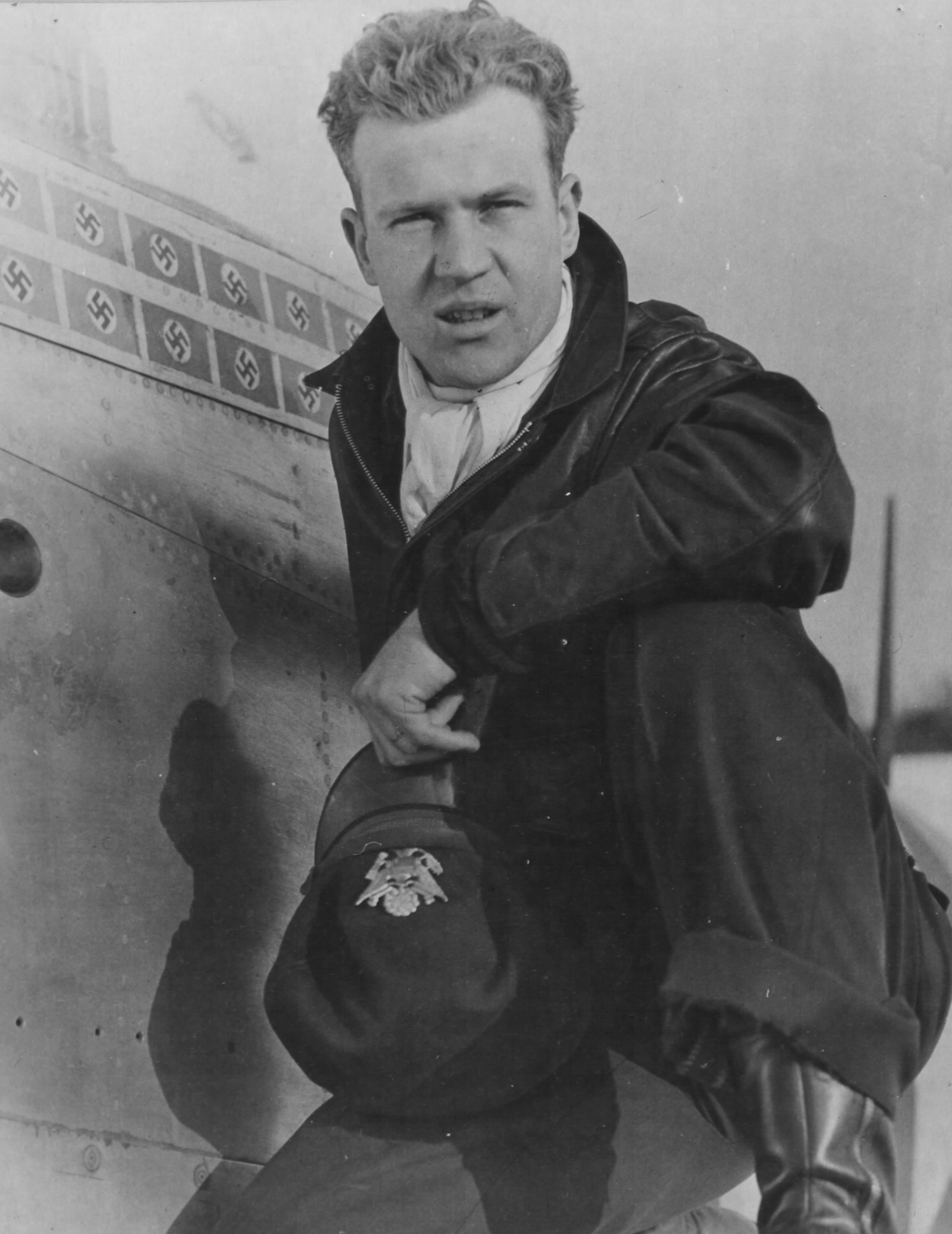 Official USAAF photo of Major Raymond Shuey Wetmore. Original caption : “Known as “The Man With telescopic Vision”, Capt. Ray S. Westmore, 22, North American P-51 Mustang fighter (ace) pilot of the U.S. 8th Air Force, from Kerman, Calif., participated in the great air battle 14 Jan 1945, and brought his record of enemy planes destroyed up to 21, putting him third, behind 8th AAF fighter pilots Lt. Col. David C. Shilling and Lt. Col. John C. Meyer. Capt Wetmore has shot 21 German planes from the sky in addition to three destroyed on the ground.”